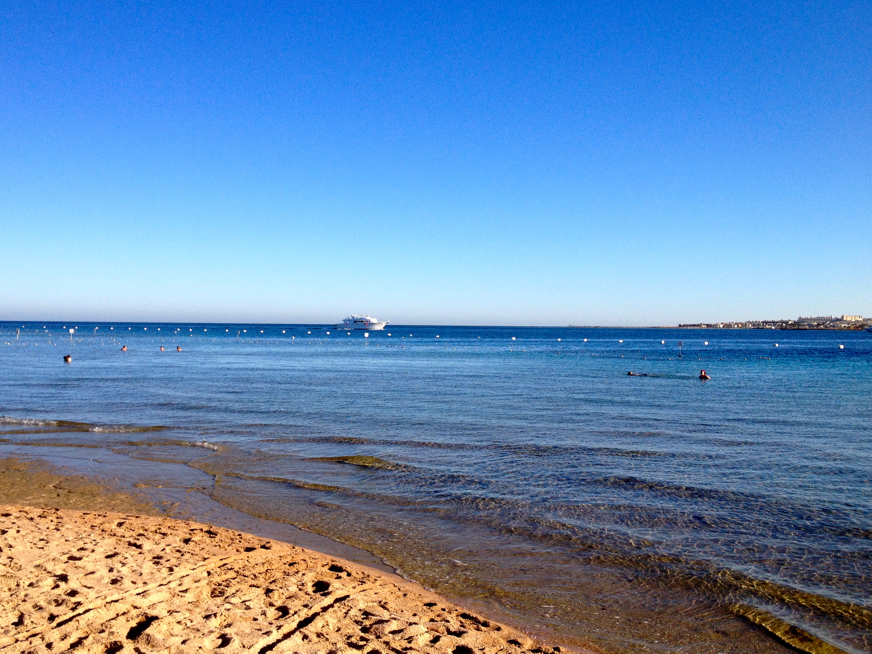 Red Sea coast at Makadi BayLietuvių: Raudonosios jūros pakrantė prie Makadi Bei